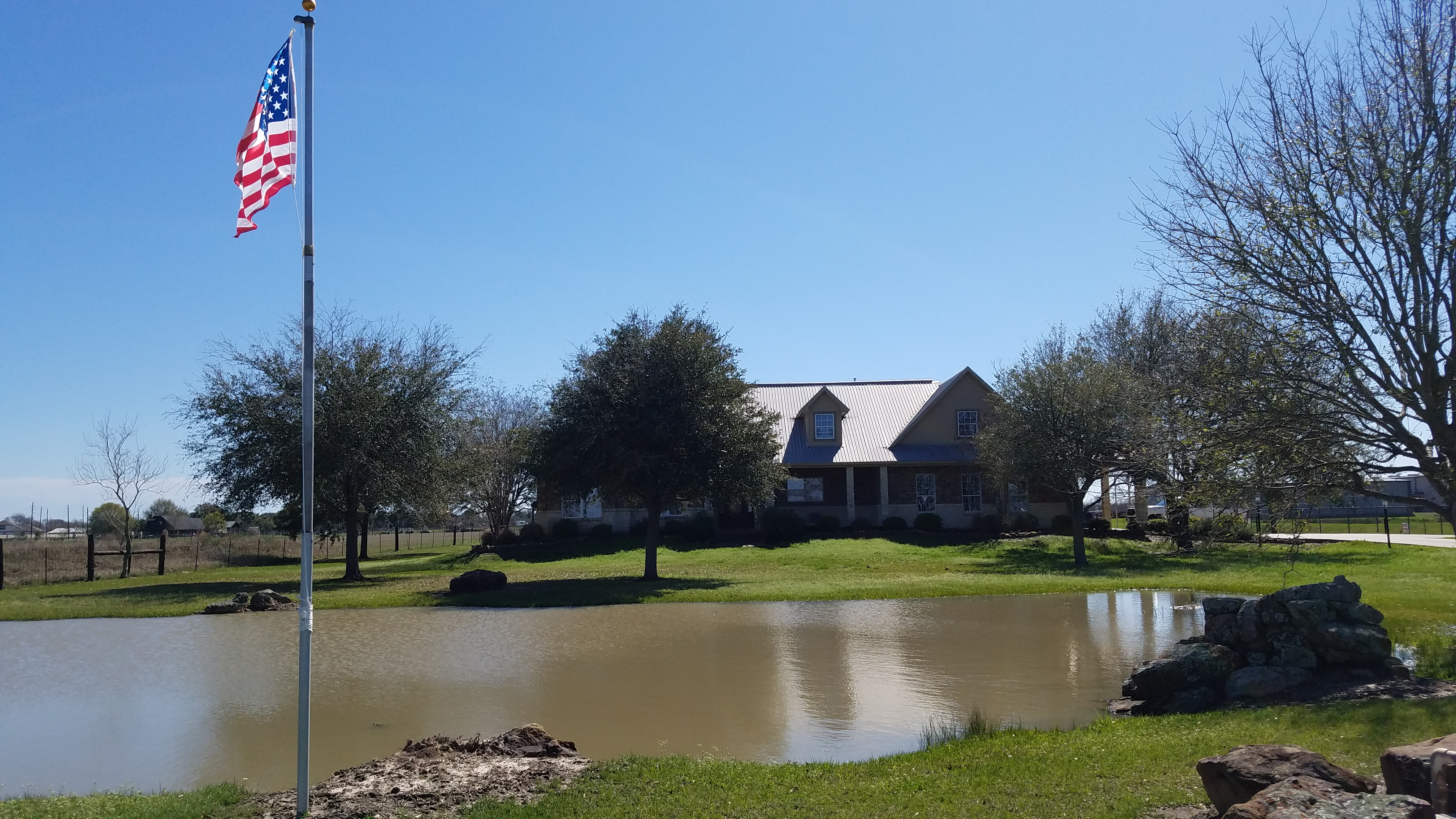 A view of the seminary